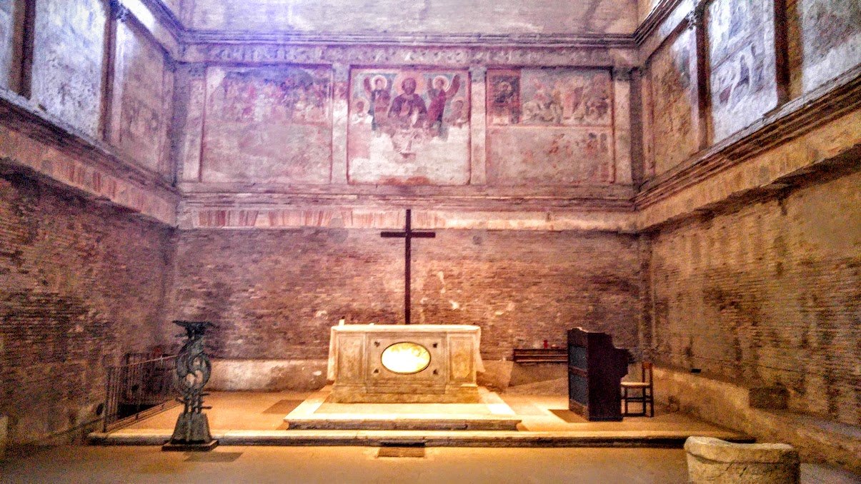 WMI and Archeo&Arte3D Lab (University of Rome "La Sapienza" - Archaeology) OSM mapping event in Rome, group C - Parco della Caffarella, 9-11 july 2016